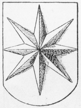 Coat of arms of Vester Herred (Hundred) on Bornholm, a former administrative subdivision of Denmark, 1584 version. Illustration from the article Om danske By- og Herredsvaaben written by Anders Thiset and published in Tidsskrift for Kunstindustri 1893-1894.